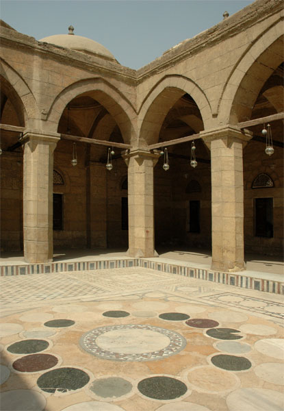 Sulayman Pasha Mosque. Citadel. Cairo. Egypt